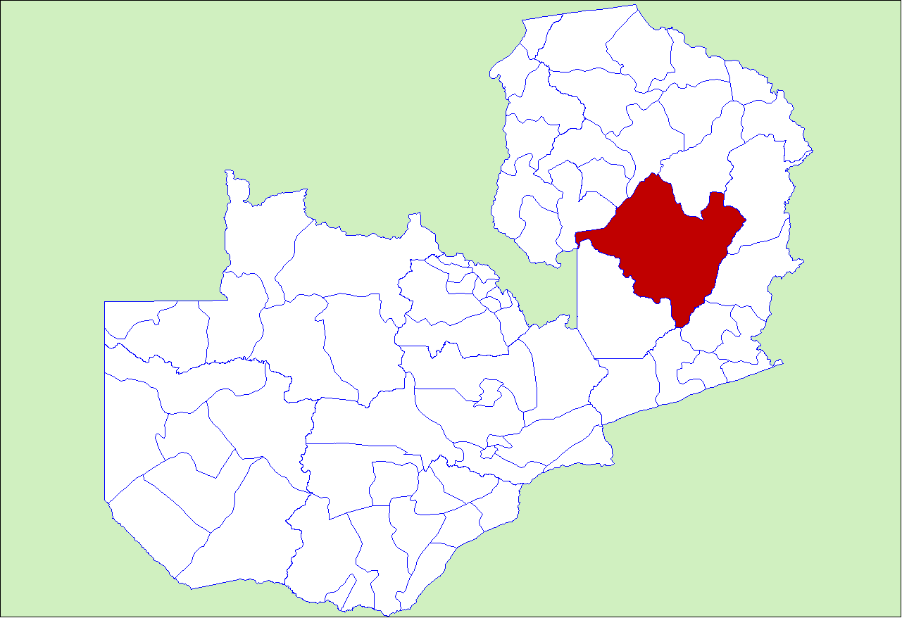 District locator in Zambia